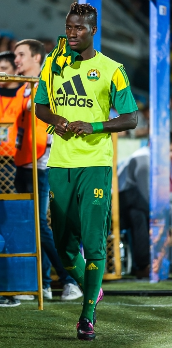 Ibrahima Baldé